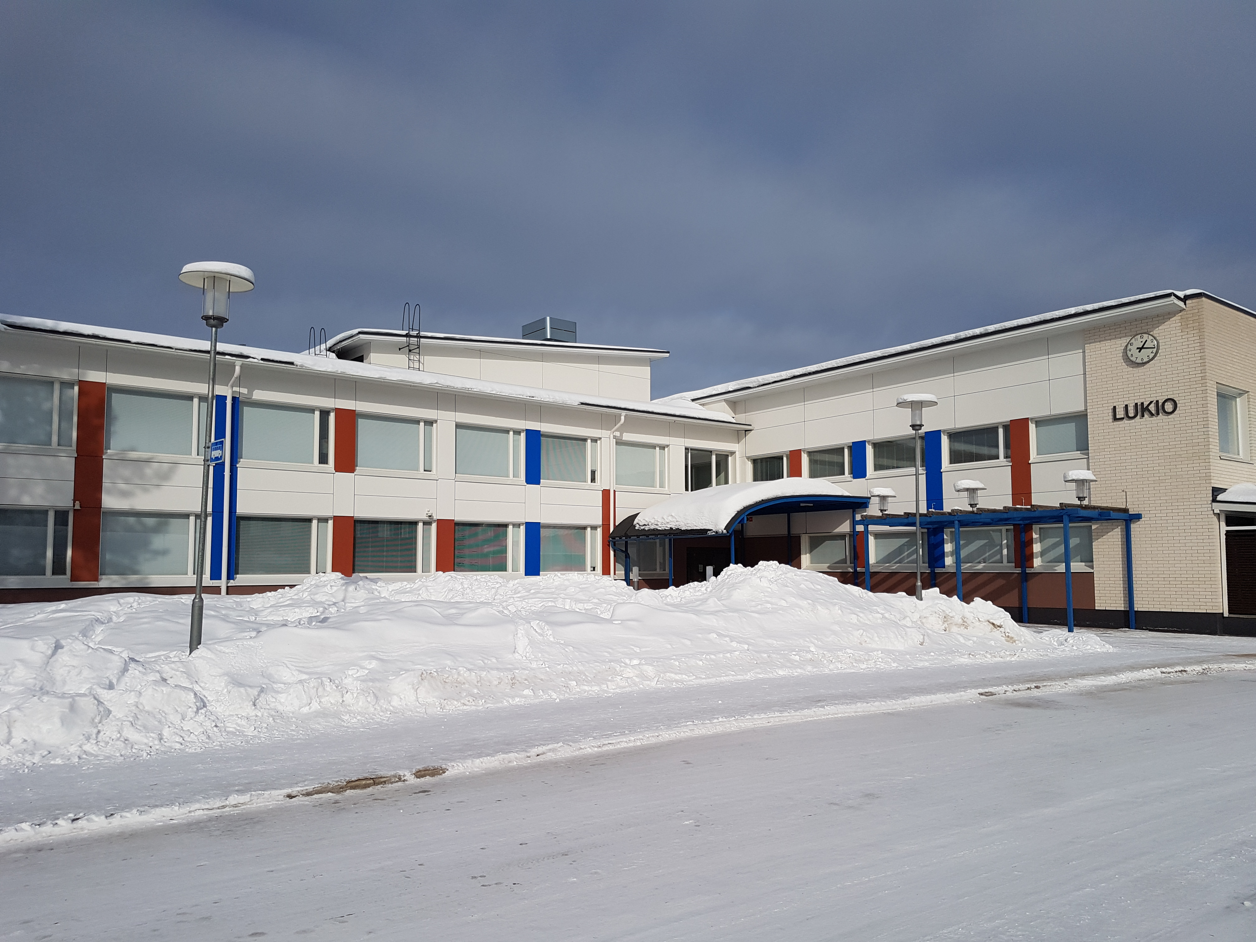 Viitasaari upper secondary school